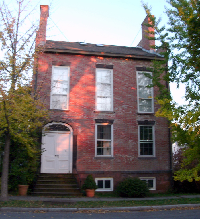 GE DIGITAL CAMERA Rensselaer, New York